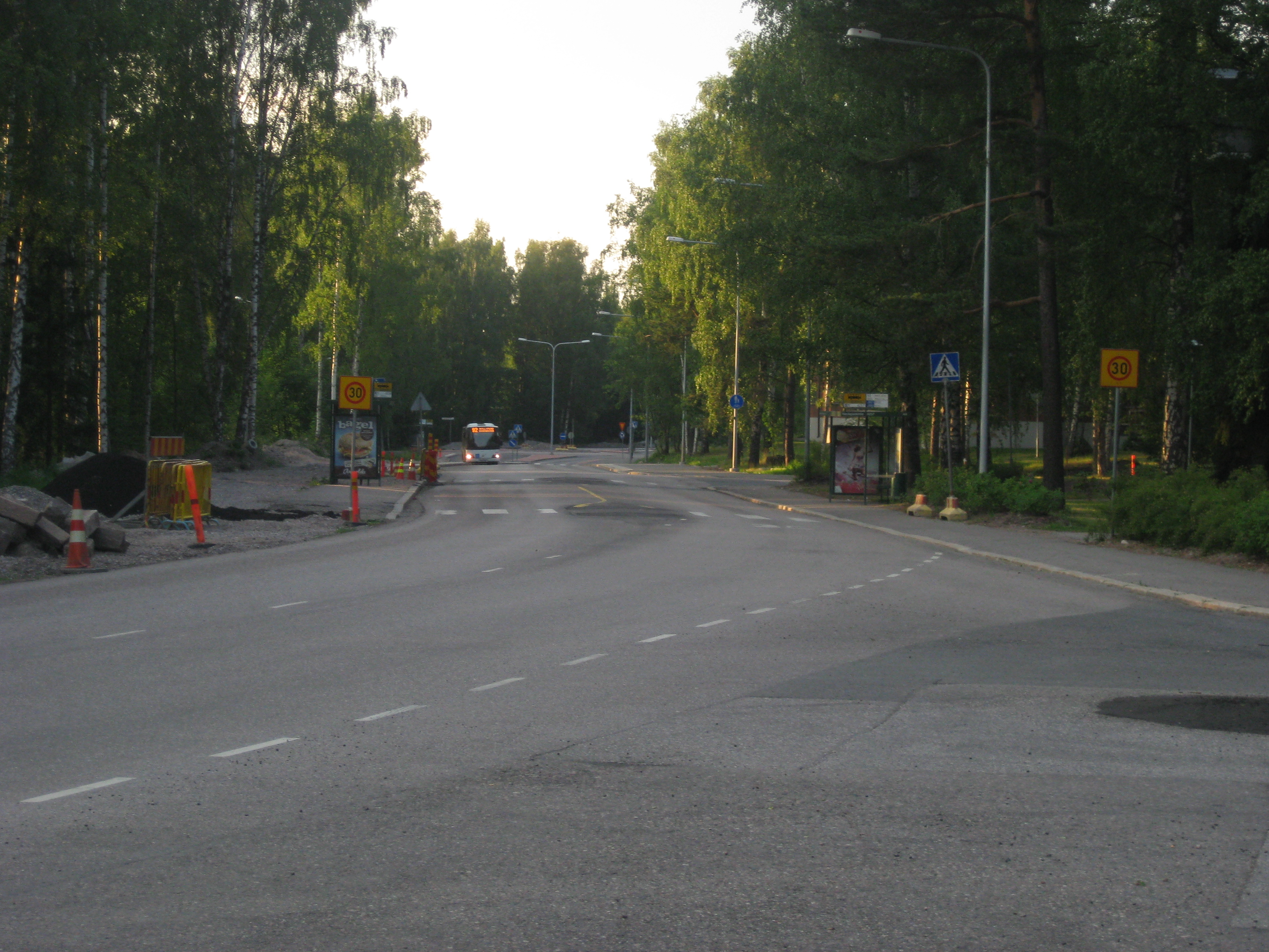 Myllypurontie street in Myllypuro district, Helsinki